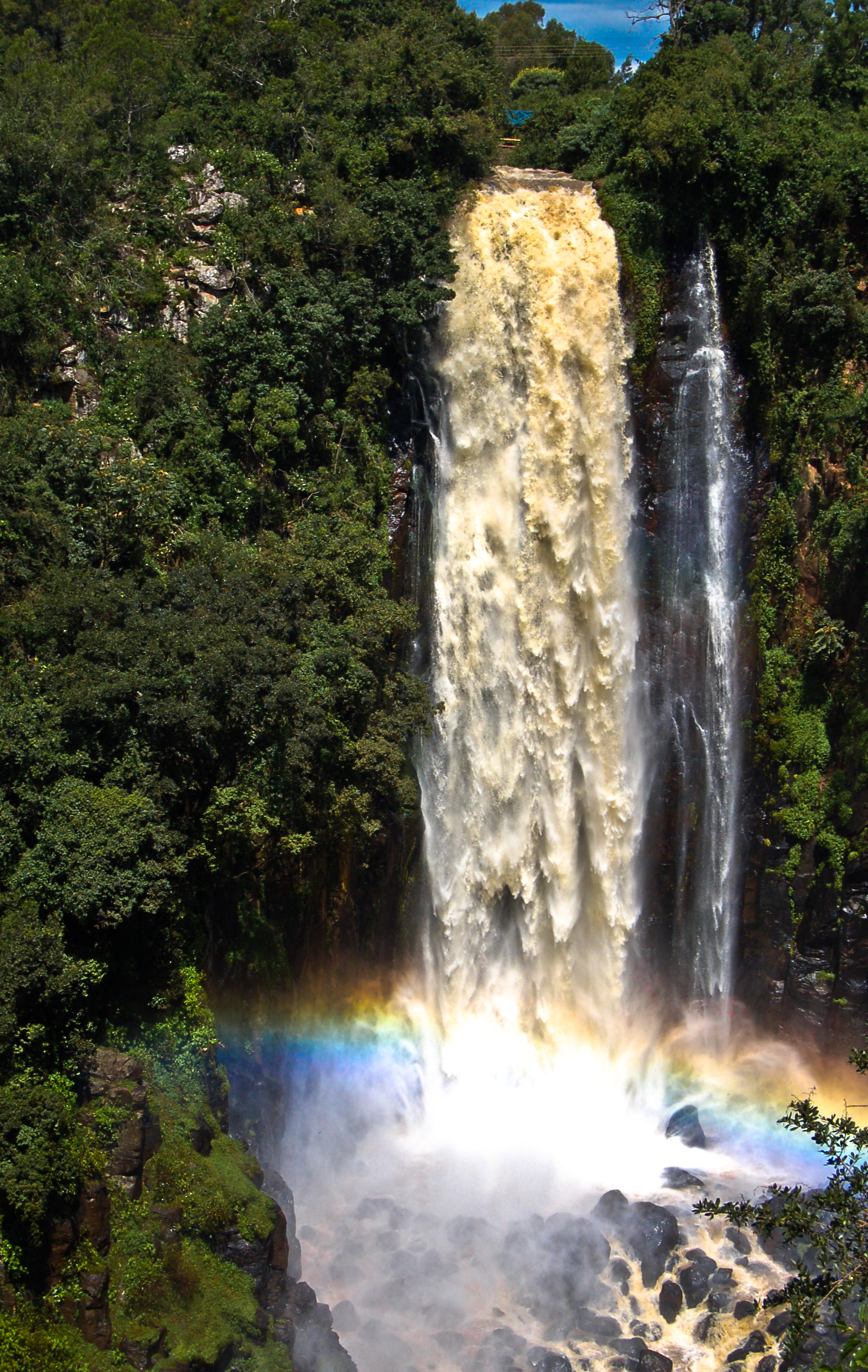 The Thomson's Falls with a rainbow